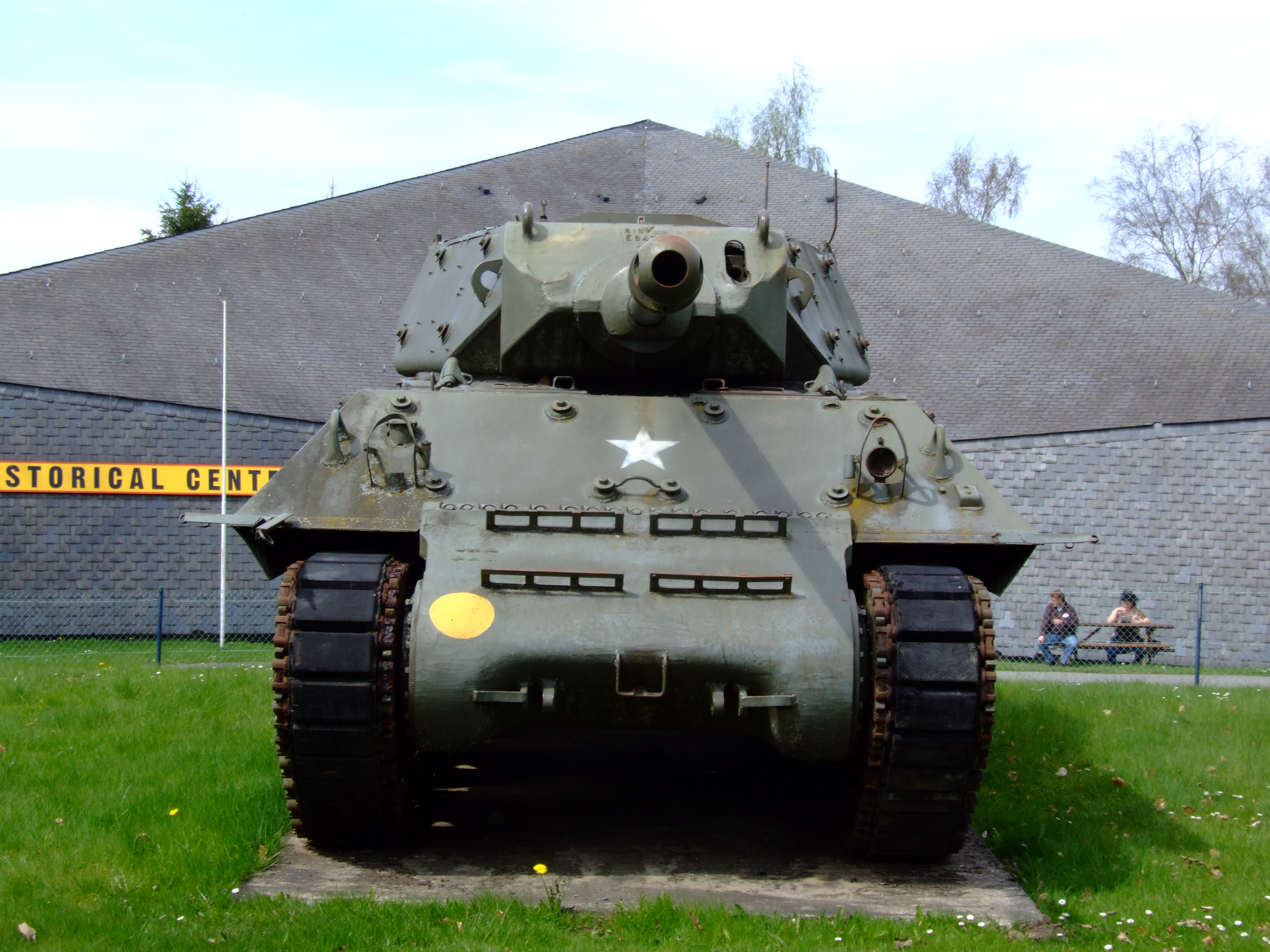 Destroyer M10 at Bastogne Historical Centre